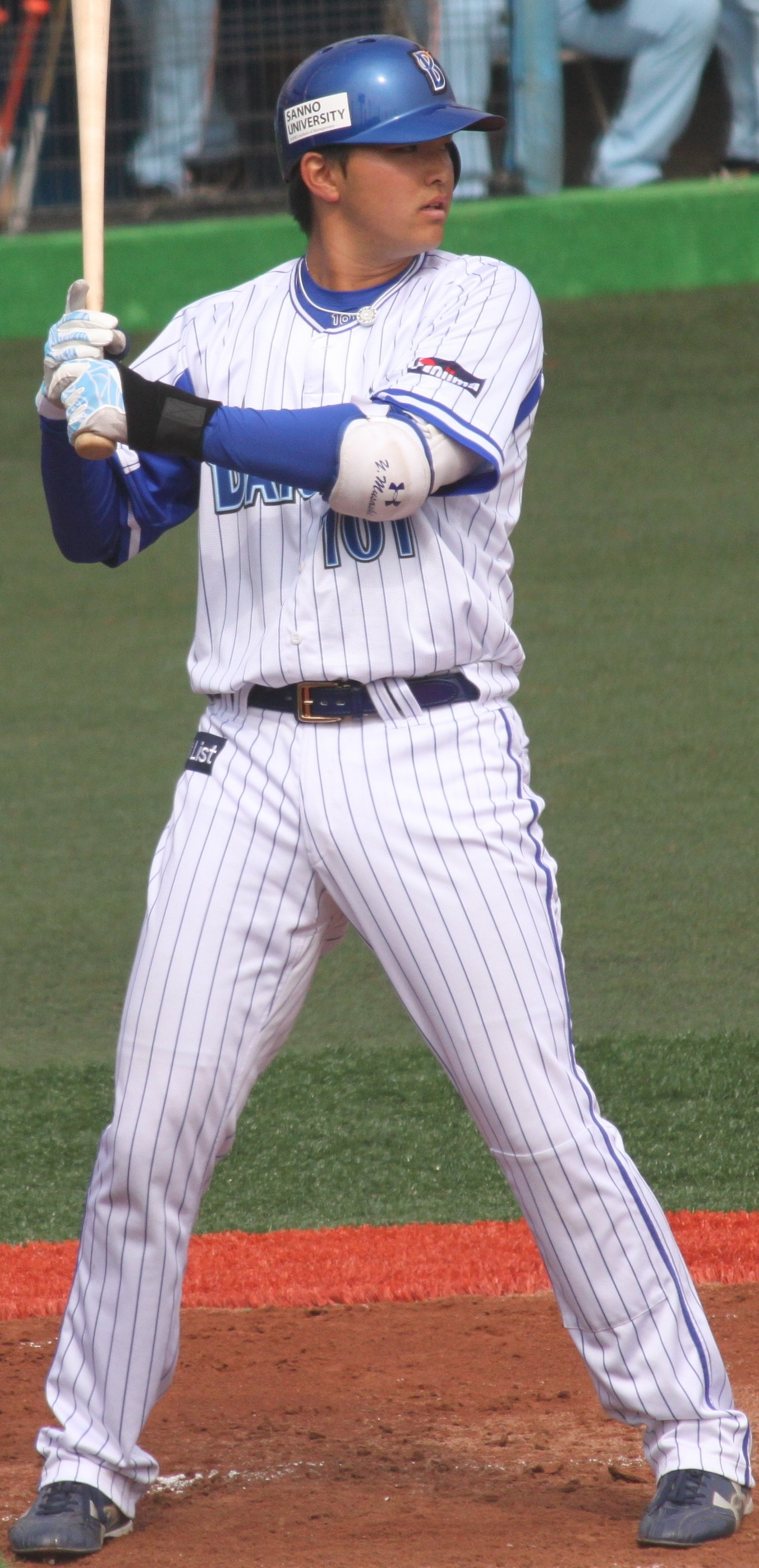 Musashi Yamamoto, infielder of the Yokohama DeNA BayStars, at Yokosuka Stadium